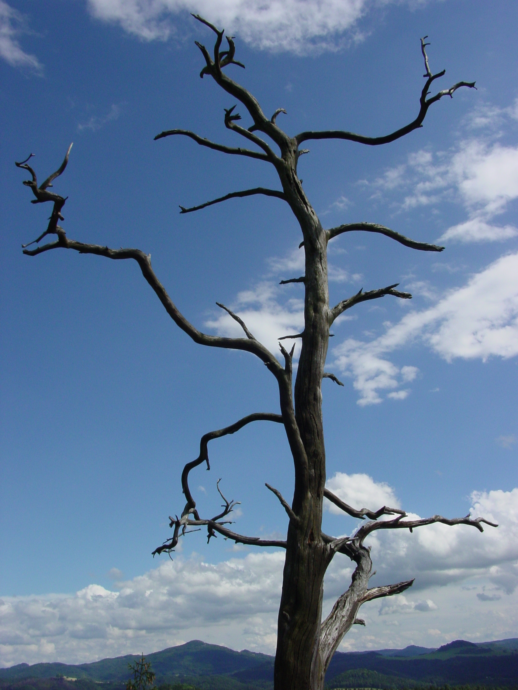 Dead tree